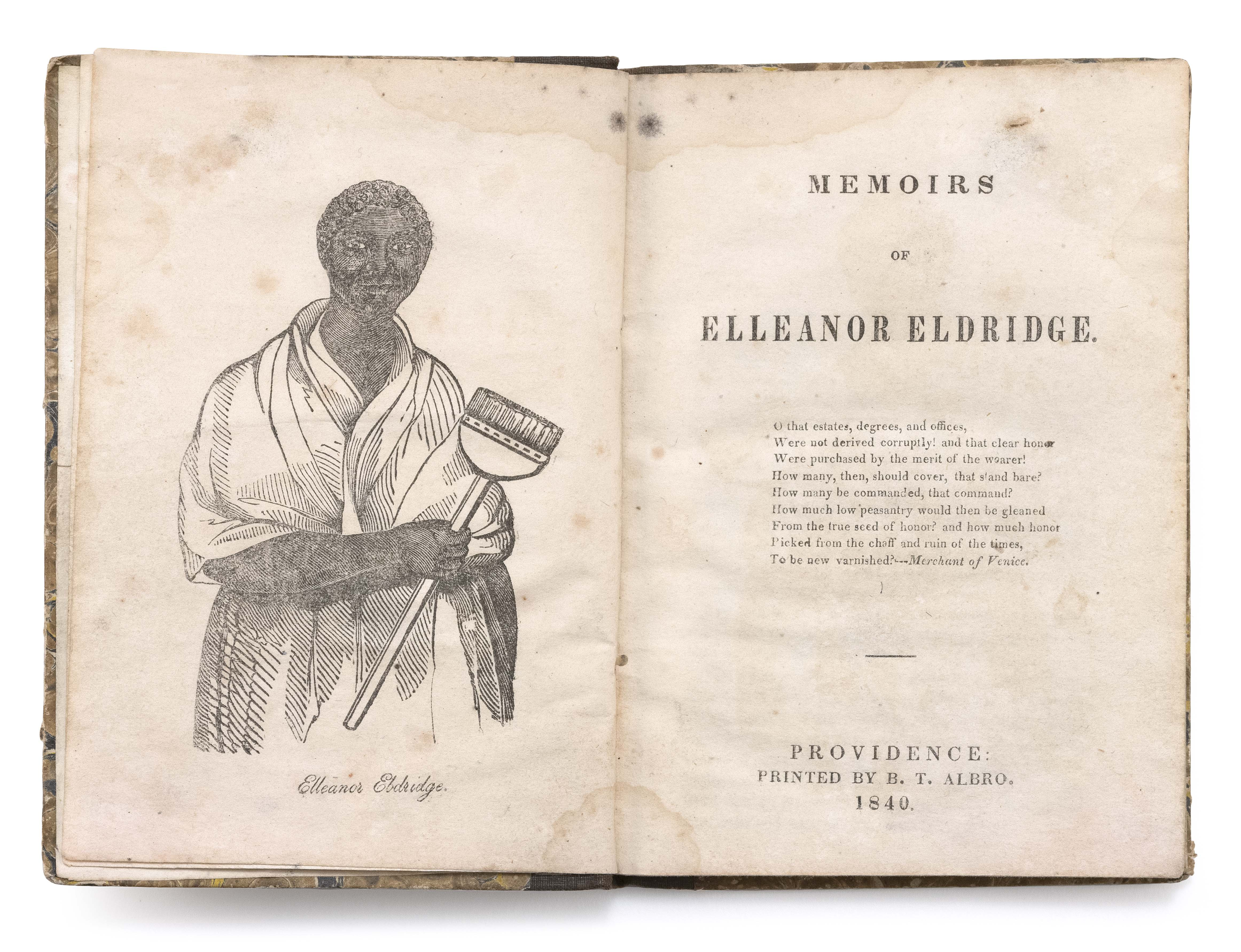 Frontispiece and title page of The Memoirs of Elleanor Eldridge (1840), by Elleanor Eldridge and Frances Harriet Whipple Green McDougall, Printed by B.T. Albro in Providence, Rhode Island.